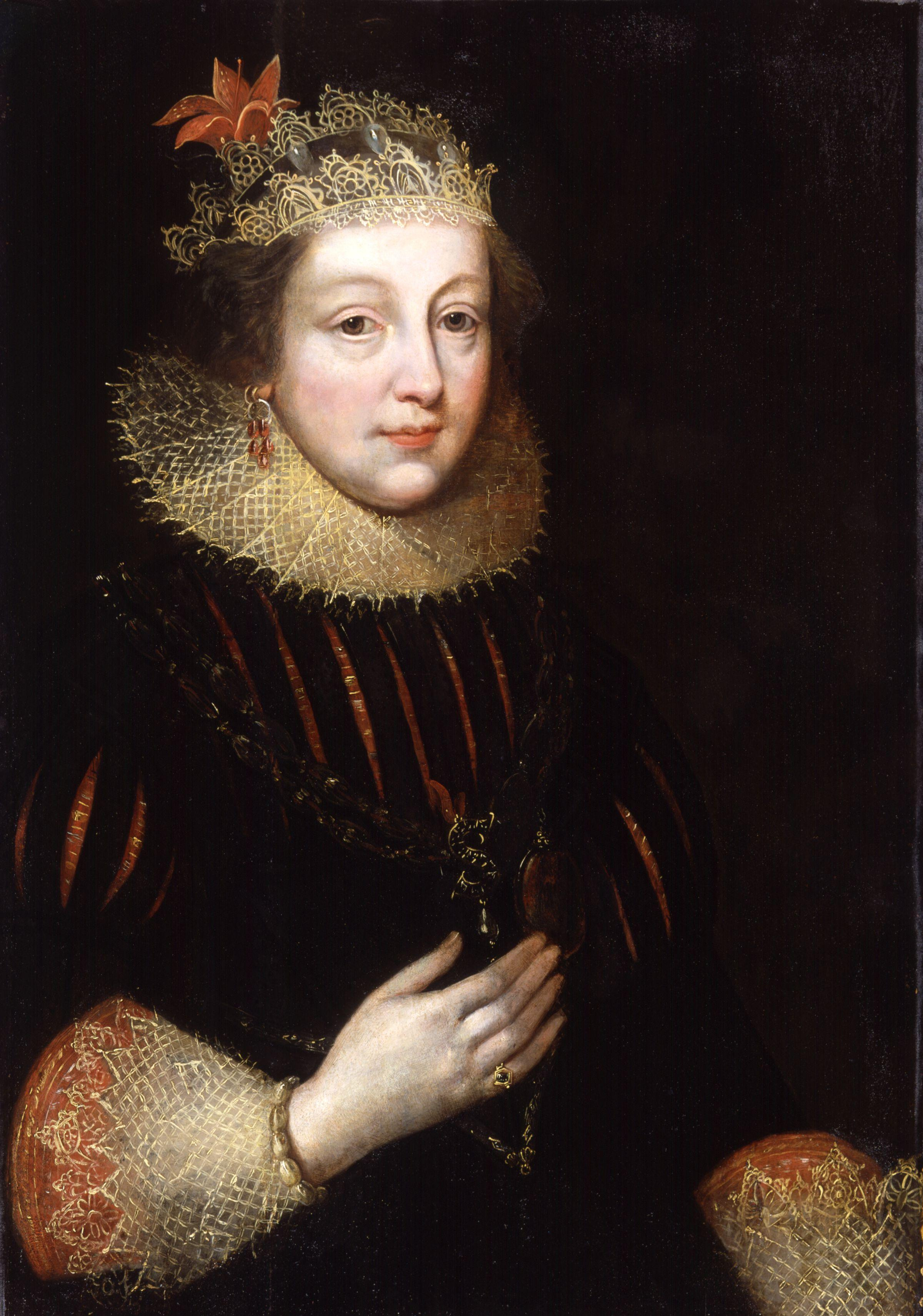 Elizabeth (Vernon), Countess of Southampton, by unknown artist. All images in this batch are listed as "unknown author" by the NPG, who is diligent in researching authors, and was donated to the NPG before 1939 according to their website.